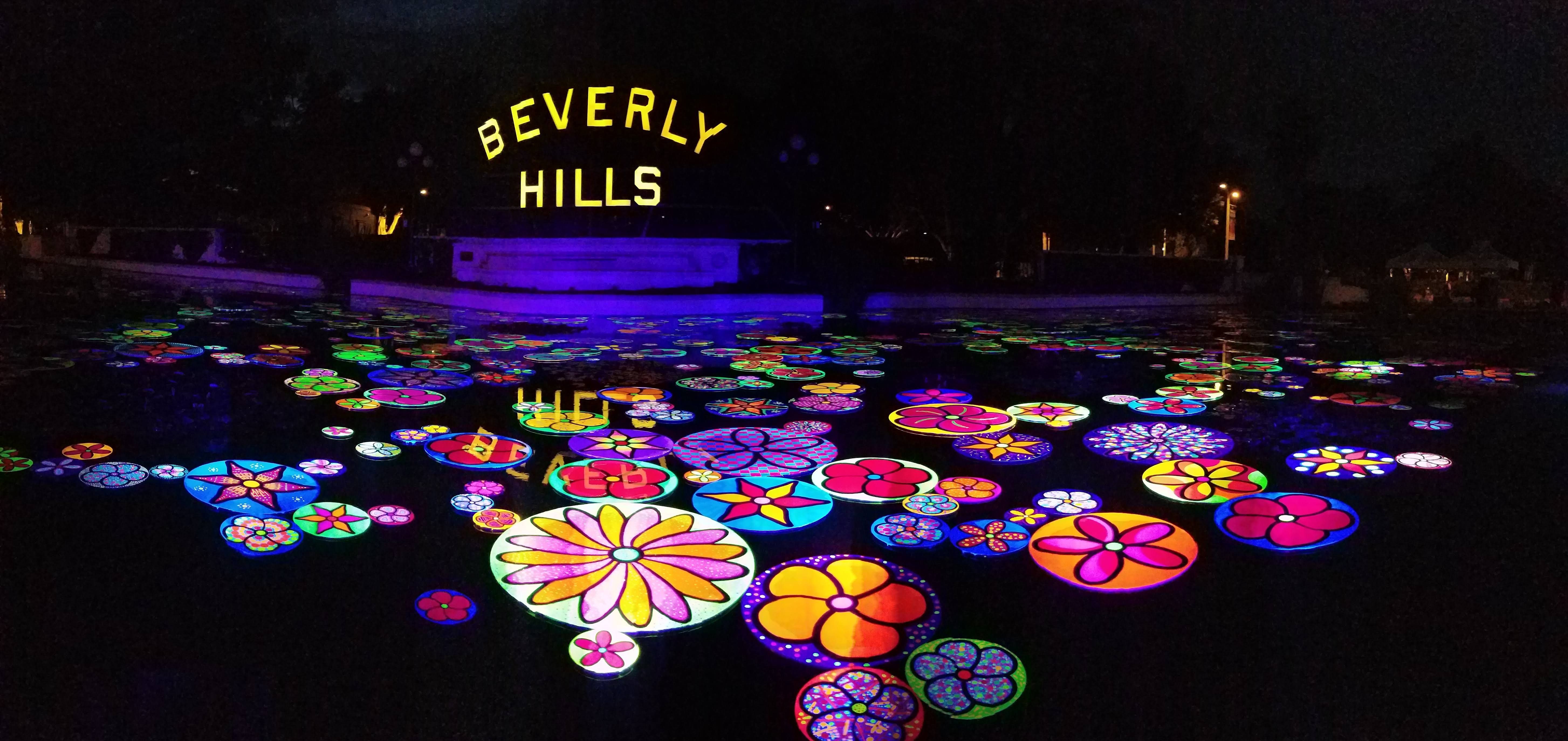 Portraits of Hope's "Neon Nights in 3D at the Lily Pond in Beverly Hills", taken on the night installation was completed.